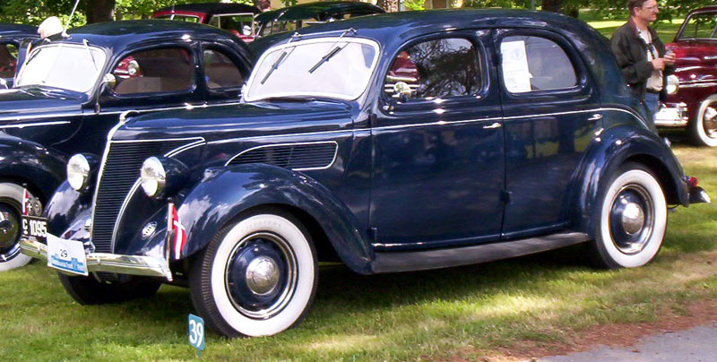 Ford V8 Saloon 1939